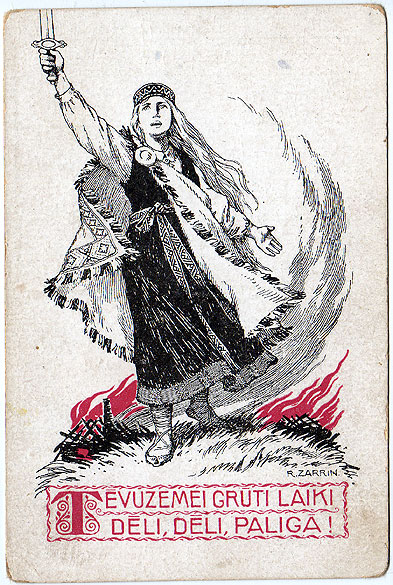 Propaganda postcard by Rihards Zariņš issued during World War I. Text in Latvian says: "Tēvuzemei grūti laiki. Dēli, dēli, paligā!" ~ "Fatherland hardships. Sons, sons, helpeth!"